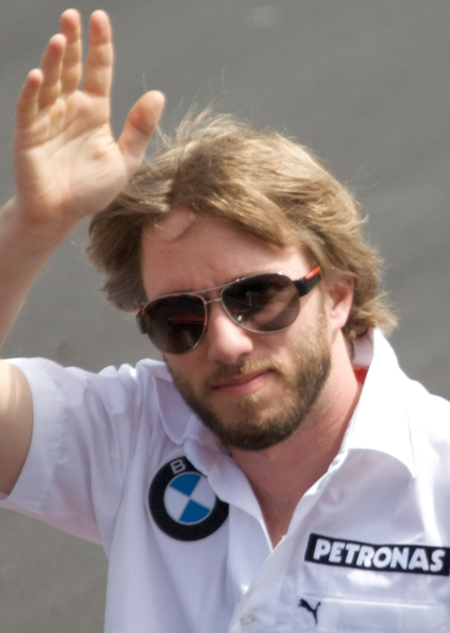 Nick Heidfeld at the 2008 Canadian Grand Prix.